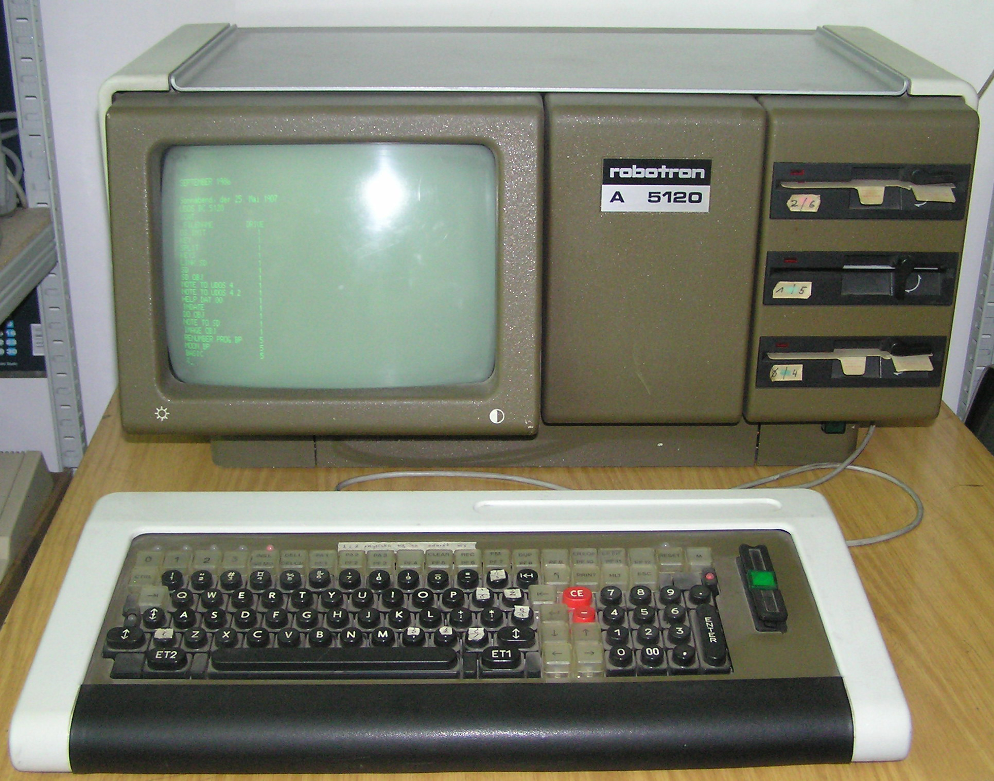 Robotron A5120 with UDOS